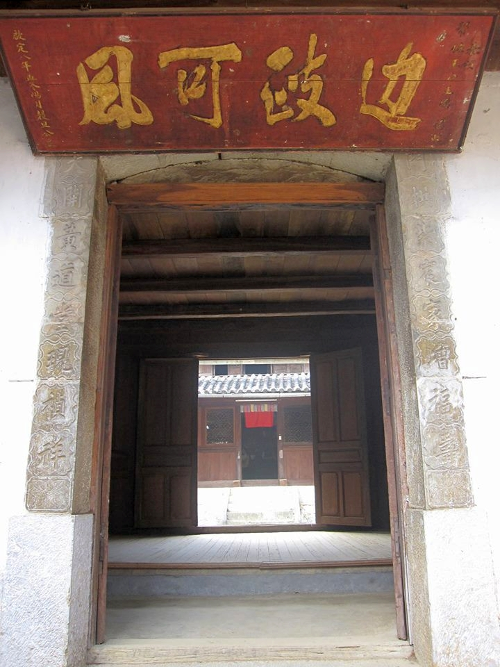 Bức hoành phi và cặp câu đối trong dinh thự họ Vương tại Hà Giang